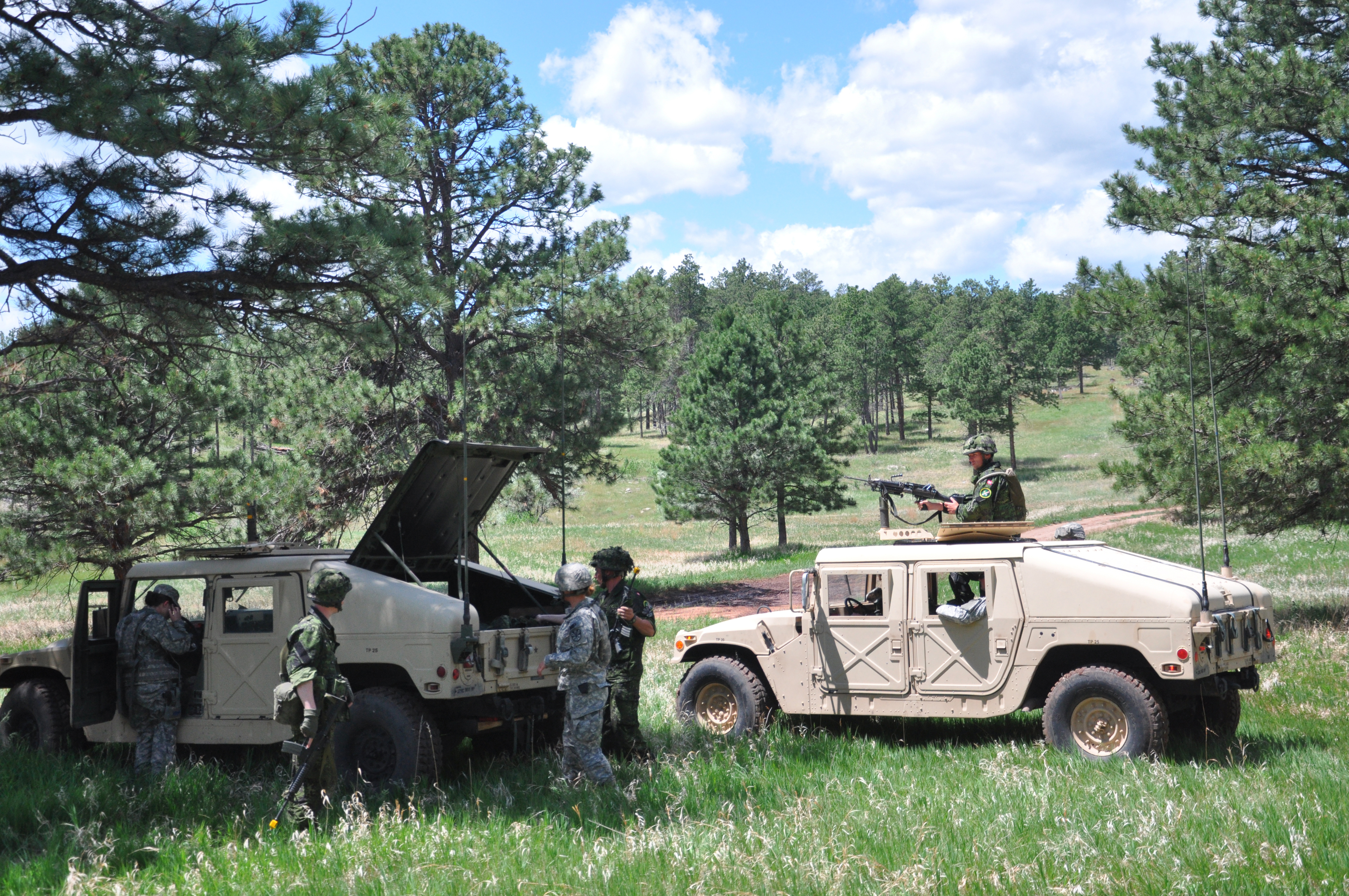 Soldiers from the 860th Military Police Company, Arizona Army National Guard of Tucson, and the Danish Home Guard Force Protection Platoon conduct a joint patrol on West Camp Rapid during the Golden Coyote training exercise June 10, 2012, in Rapid City, S.D. National Guard, U.S. reserve and international forces use the exercise as an opportunity to conduct joint training in support of overseas contingency operations and homeland defense.